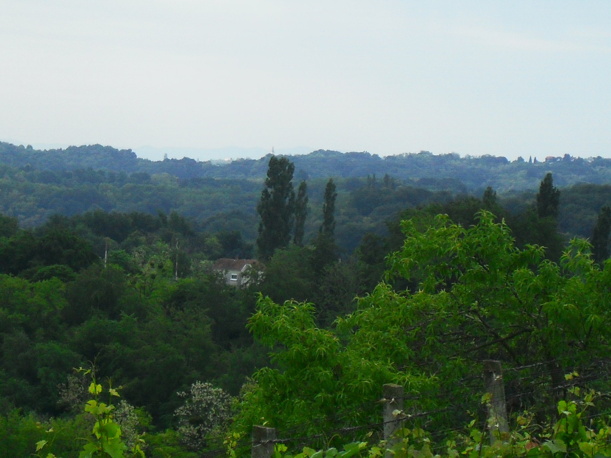 Kapelščak near Vrhovljan, Međimurje Croatia